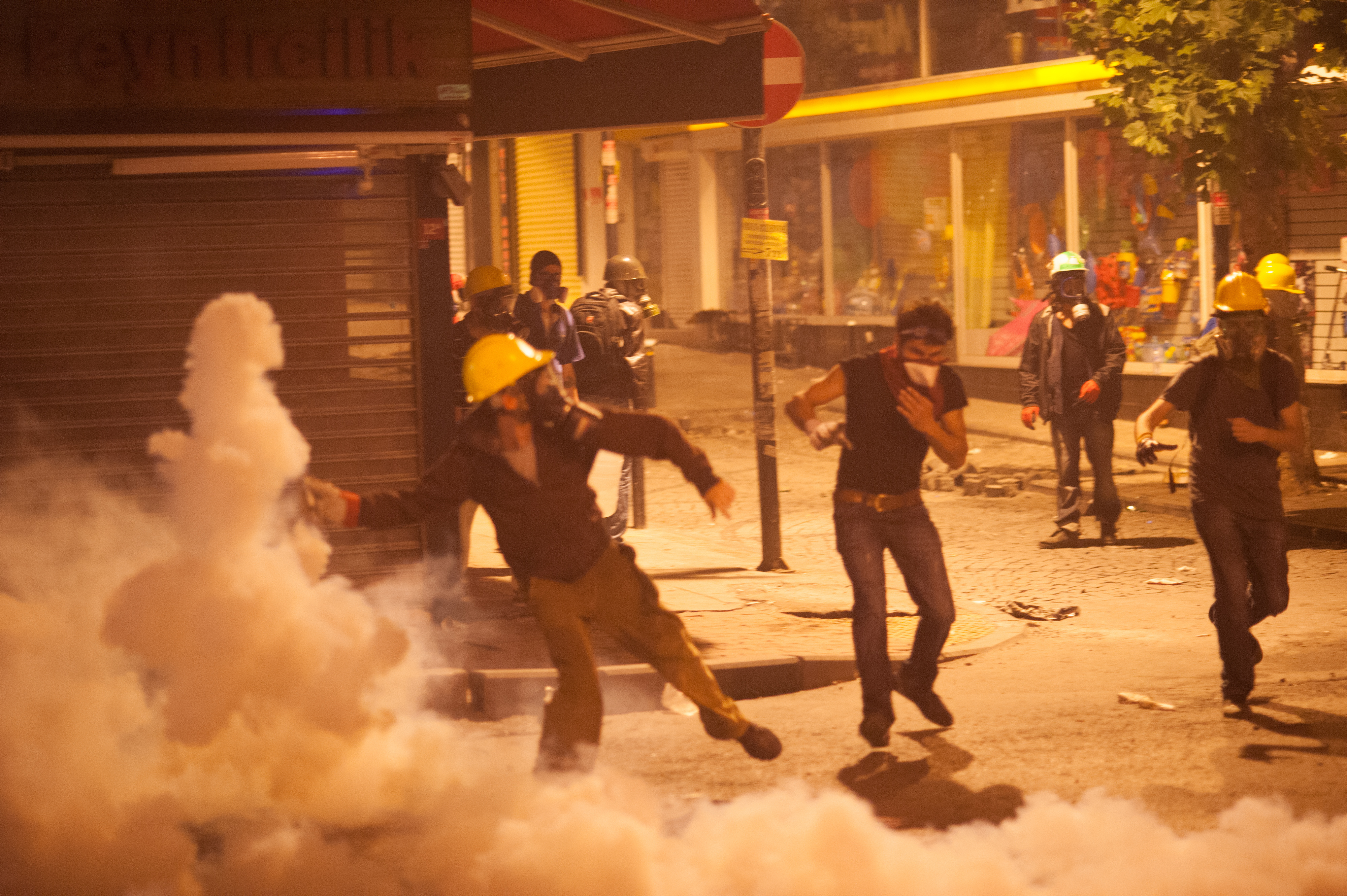 Protesters action during Gezi park night protests. Events of June 15, 2013.